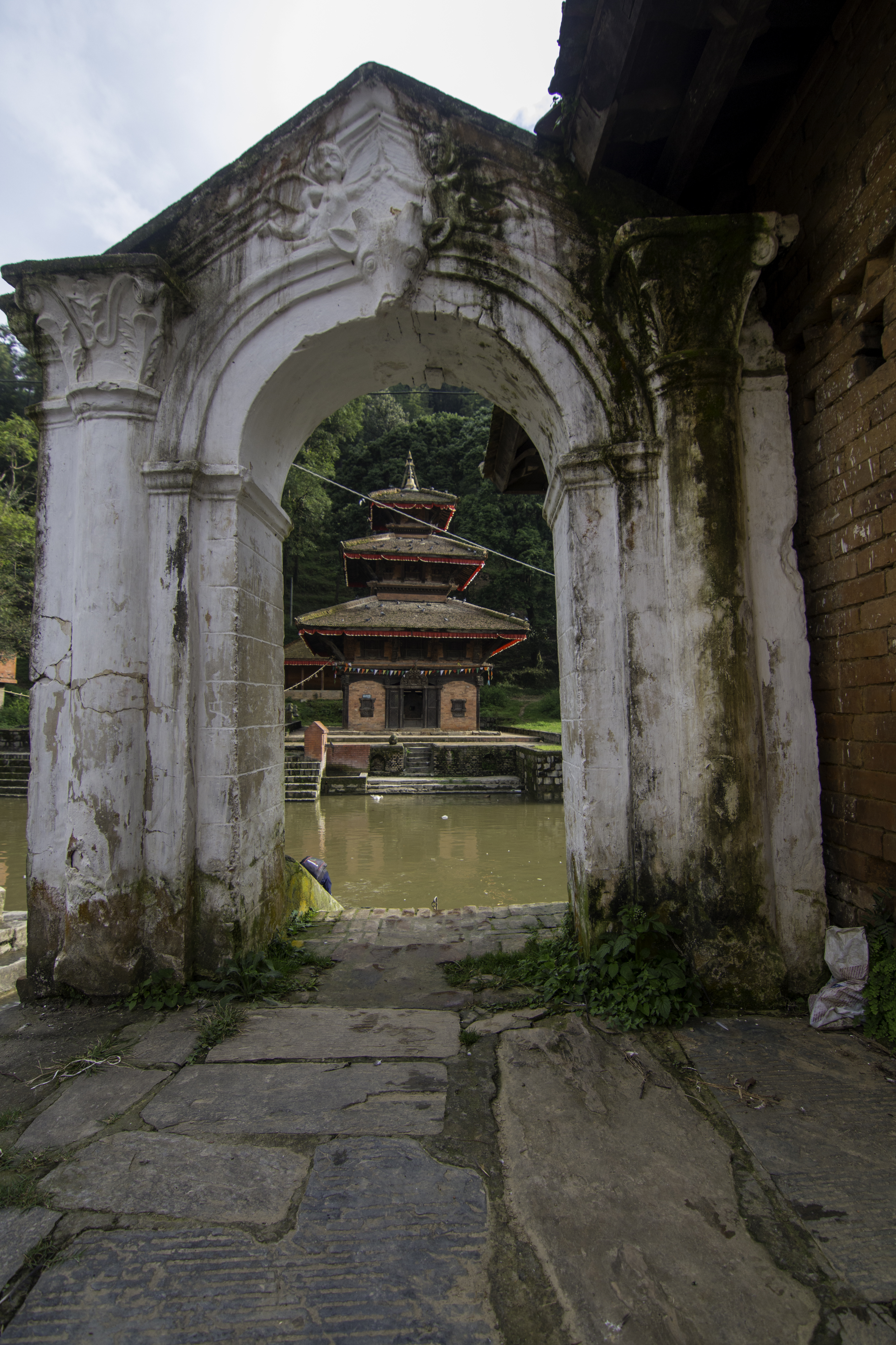 Shachi Tirtha Tribenighat at Panauti, Kabhre and its sculptures monuments.